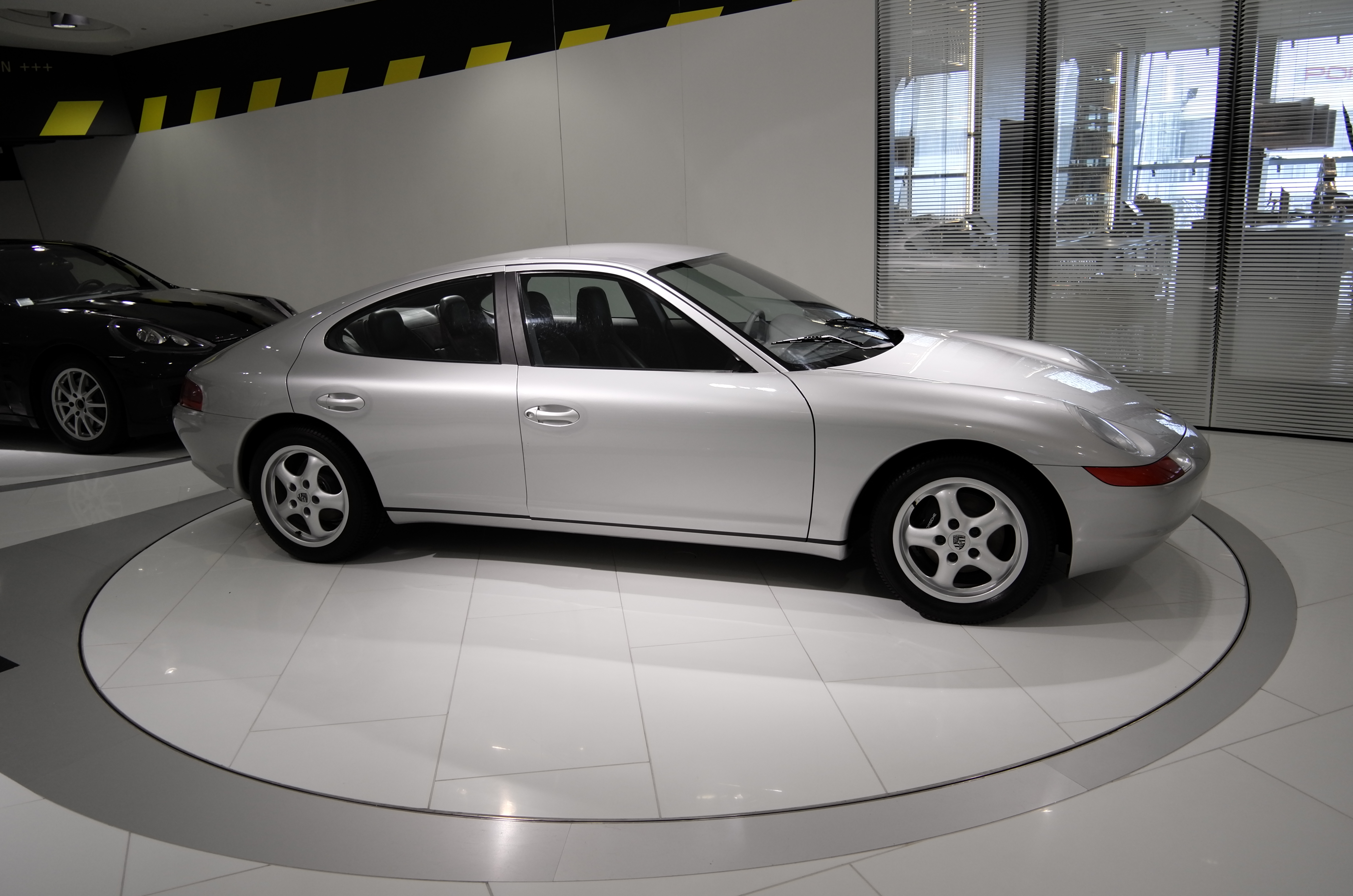 Porsche 989 prototype. Picture taken in the Porsche Museum in Stuttgart, Germany. Camera used: Leica T.